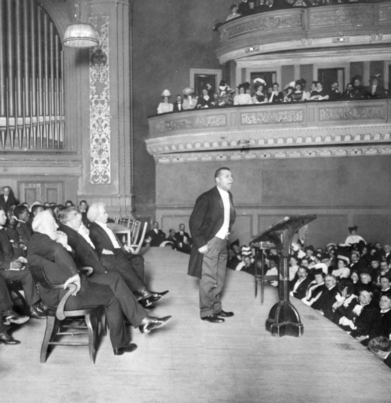 "Booker T. Washington holds a Carnegie Hall audience spellbound during his Tuskegee Institute Silver Anniversary lecture, 1906. Mark Twain is seated just behind Mr. Washington."